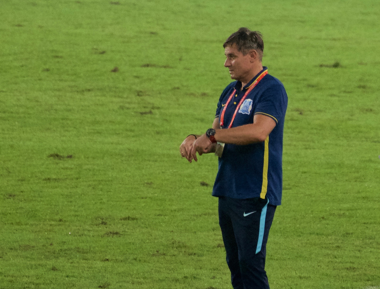 Dragan Stojković as the manager of Guangzhou R&F F.C..